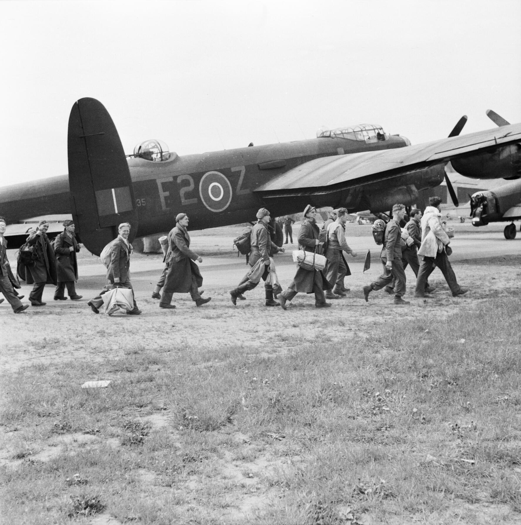 The British Army in North-west Europe 1944-45 Liberated POWs walk out to Lancaster bombers at Lubeck aerodrome, waiting to fly them home to Britain, 11 May 1945. Comment : The aircraft appears to be F2-Z of No. 635 Squadron RAF. The Lancaster at right is fitted with the Automatic Gun-Laying Turret "Village Inn" tail turret. A Gloster Meteor is just visible below the undercarriage doors of Lancaster F2-Z